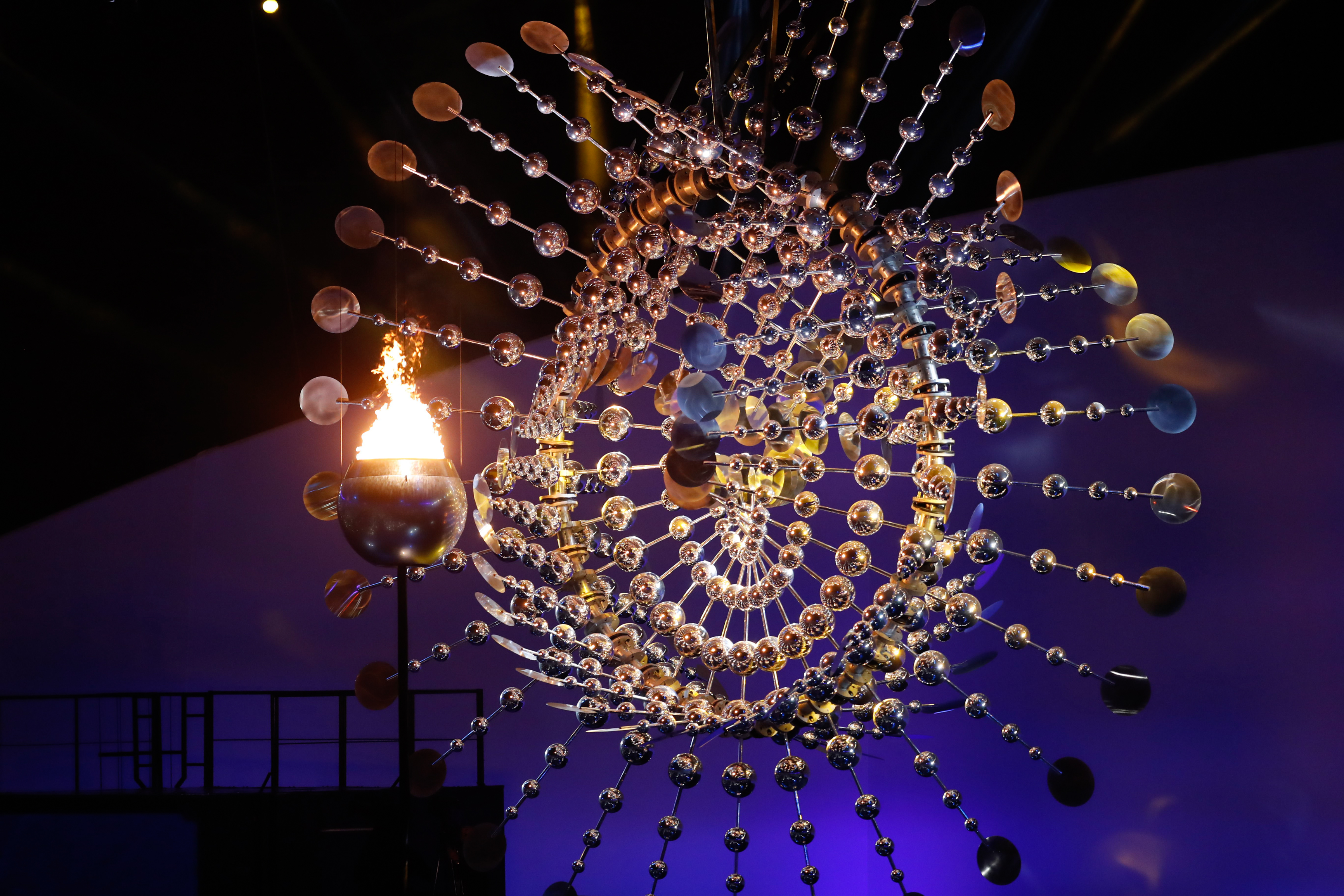 Rio de Janeiro - Cerimônia de abertura dos Jogos Olímpicos Rio 2016 no Estádio do Maracanã. (Fernando Frazão/Agência Brasil)